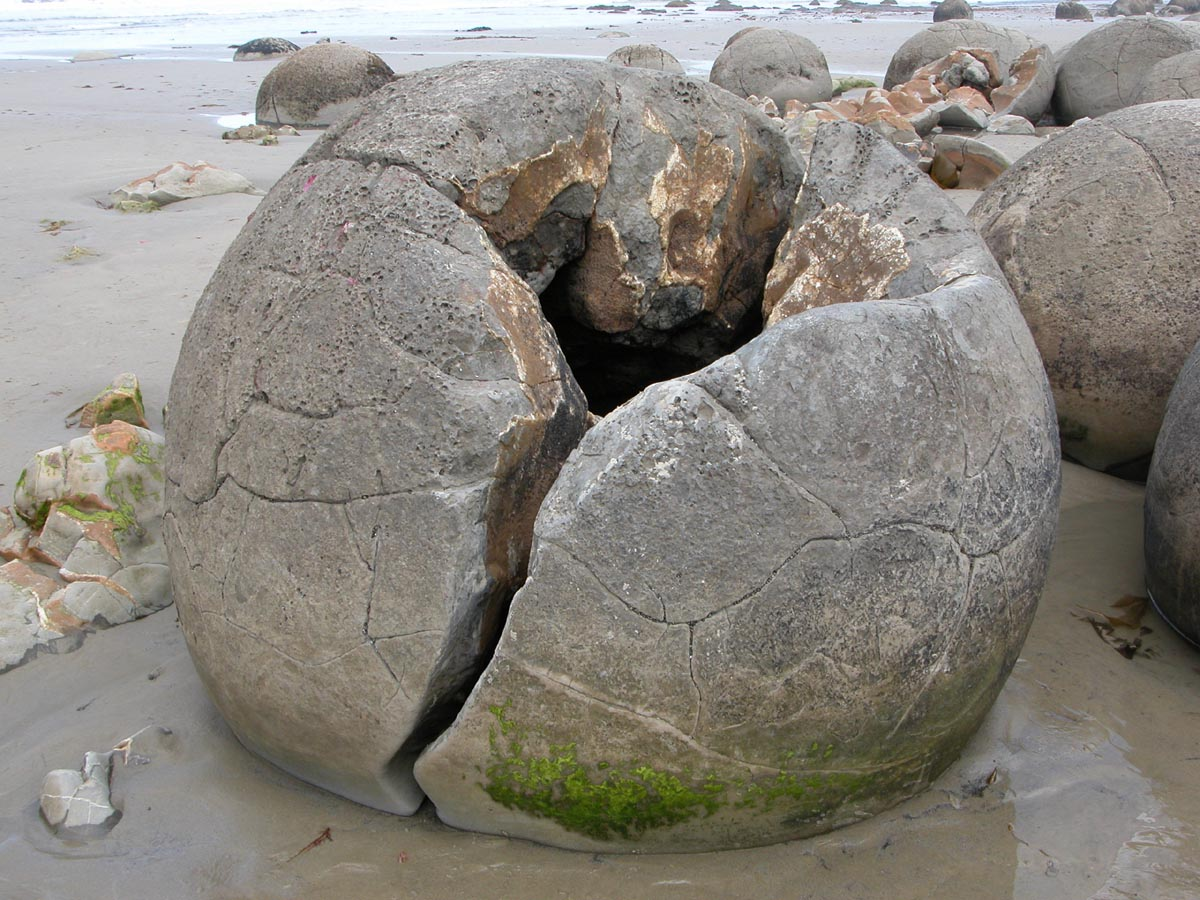 One of the Moeraki Boulders, showing the hollow interior.